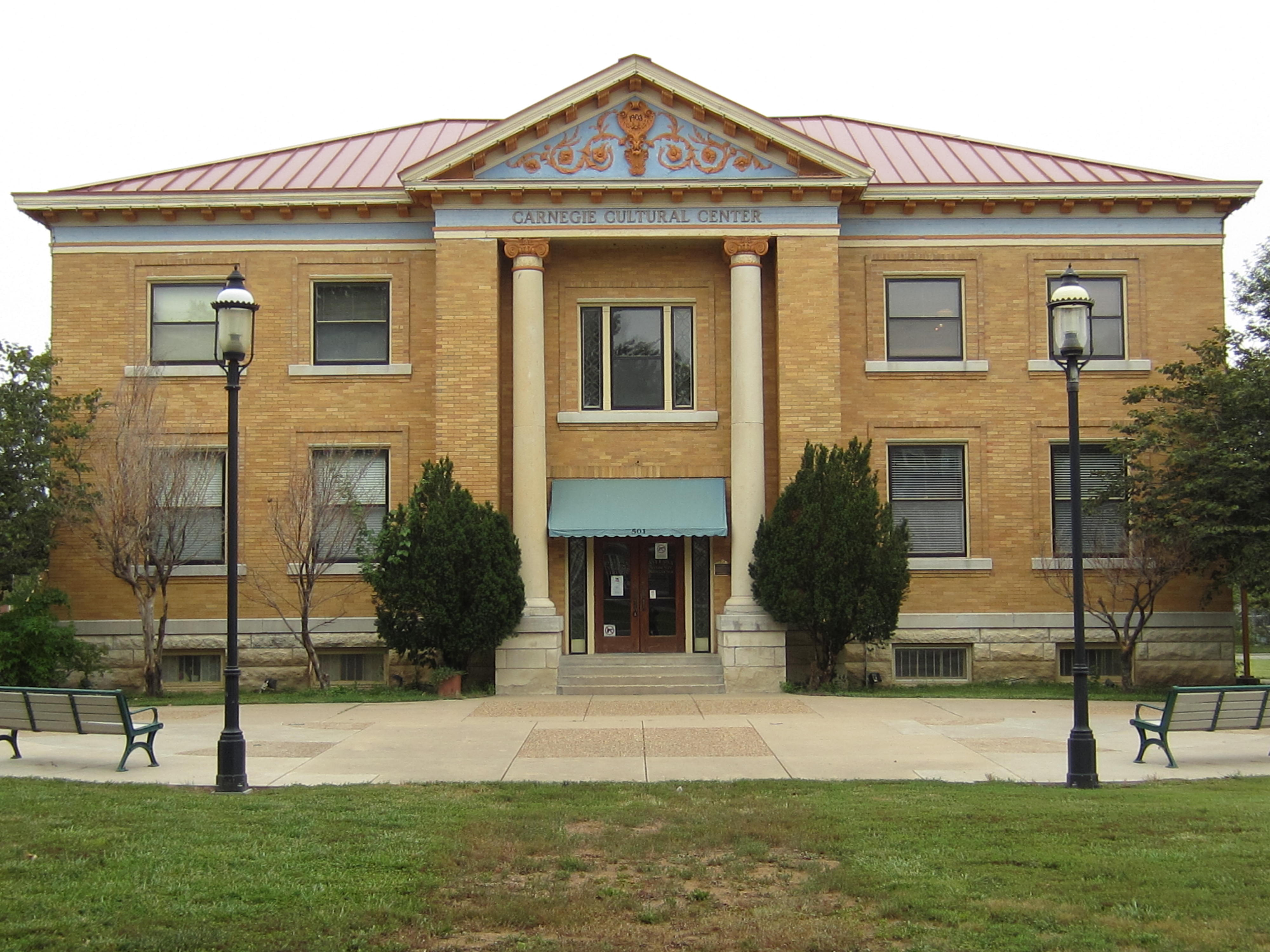 Ottawa, KS former public library building. (2013)